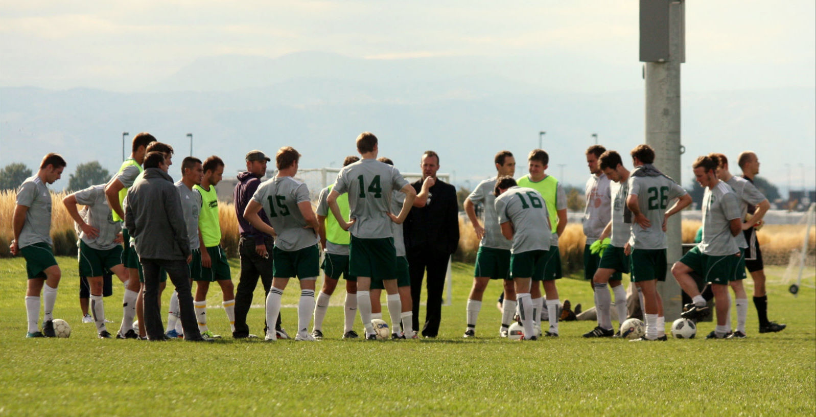 Pre-game picture of FC Denver before championship match